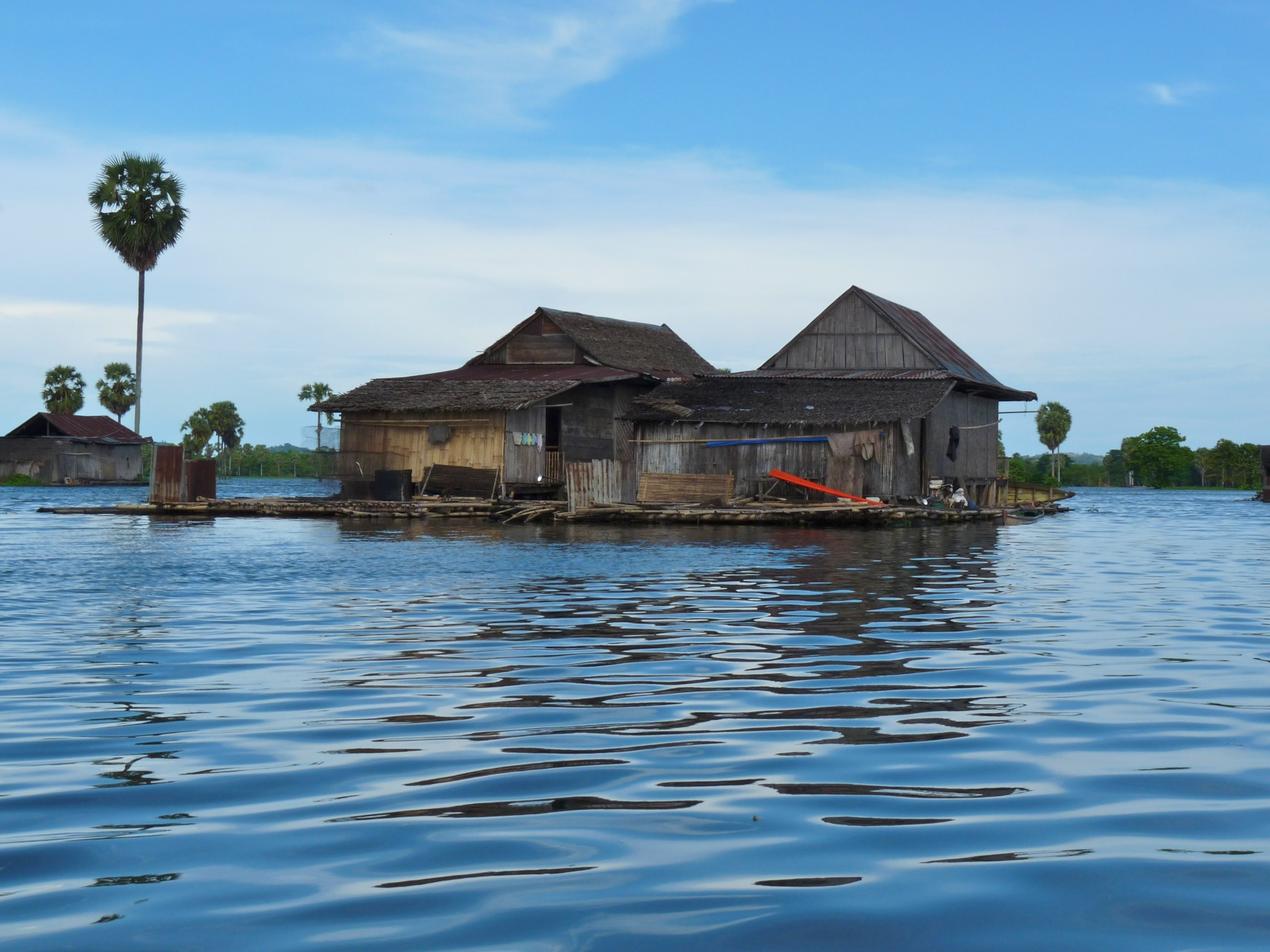 Houses on Lake Tempe, South Sulawesi, Indonesia